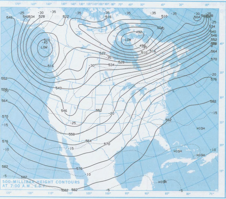 Upper air circulation at 500 mb during the North American ice storm of 1998. On January 5th, a long wave trough of low pressure was across the Rockies while a anti-cyclonic ridge was building across the East coast of the United States and Atlantic Ocean. This combination develops a persistent mild southwest flow the Gulf of Mexico to the northeast United States and southeast Canada where it has to turn to the East. The trough will move gradually East until the 10th but the eastward turn other the affected area will remain zonal.